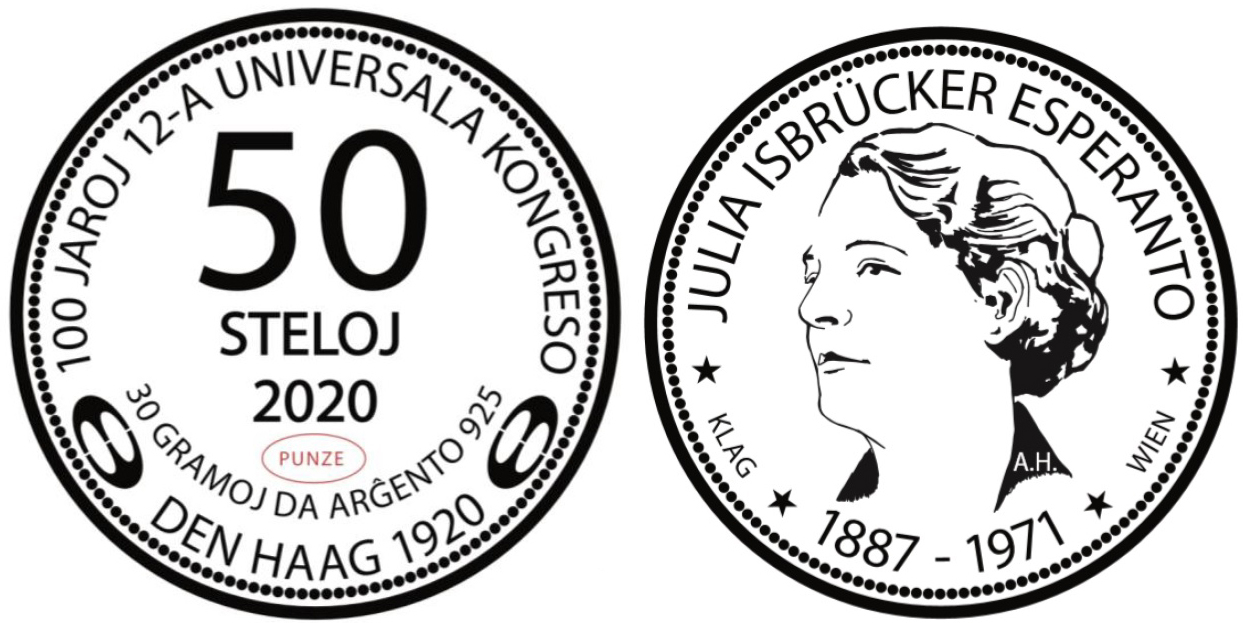 La nova 50-Stela monero 2020 por la honoro de Julia Isbrücker